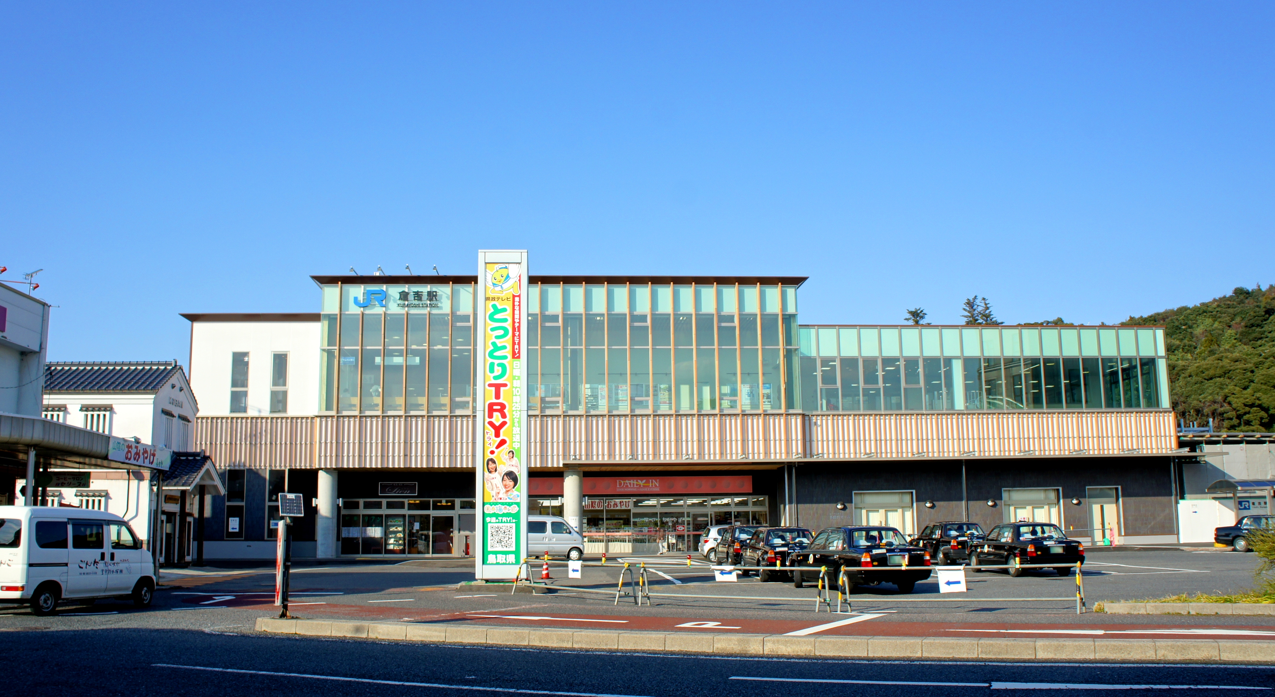 Kurayoshi Station in Kurayoshi, Tottori Prefecture, Japan, after rebuilding